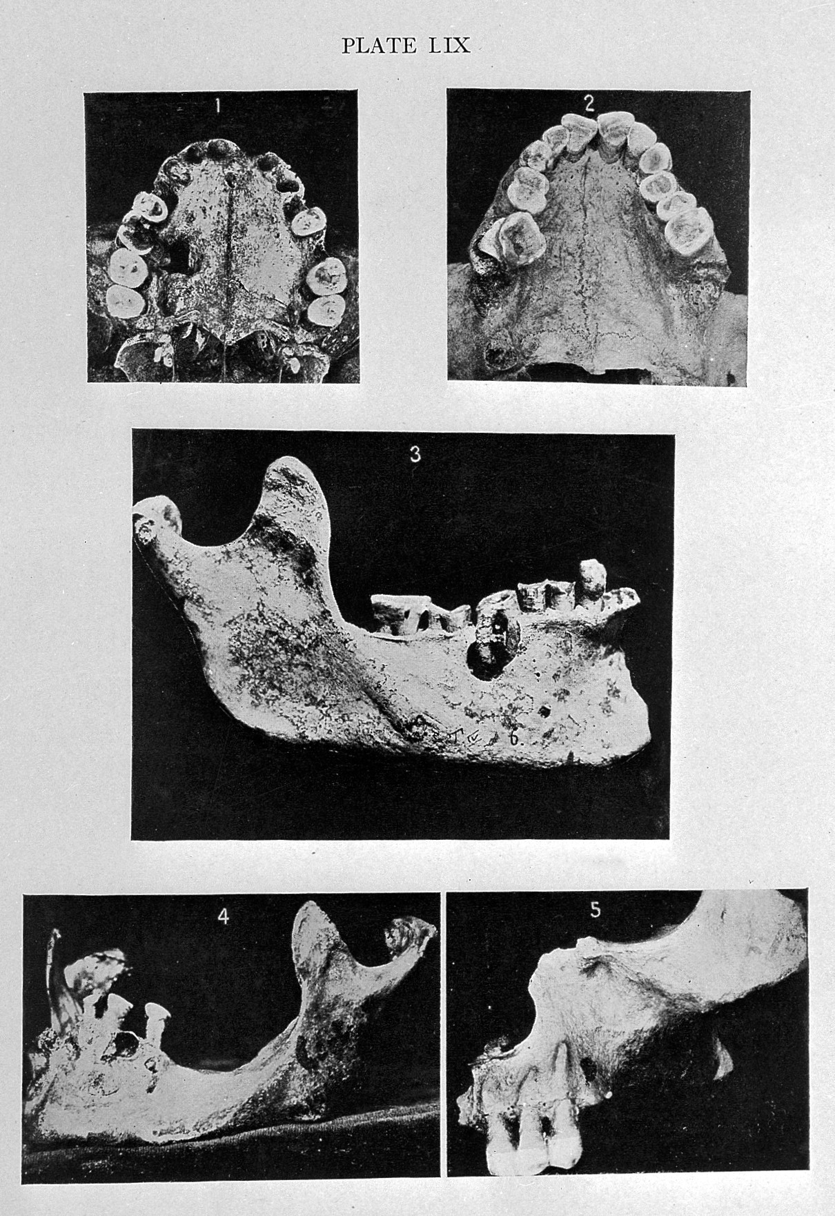 Abnormalities in Ancient Egyptian teeth. Figure 1. Coptic skull 2.Macedonian period 3. Predynastic, Naga et Deir 4. Coptic period 5. Roman period, Kom el Scougafa General Collections Keywords: egyptology; palaeopathology; Dentistry; Ruffer, Marc Armand